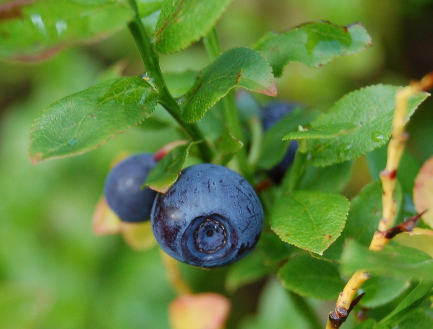 Bilberry - Vaccinium myrtillus, Blefjell, Norway